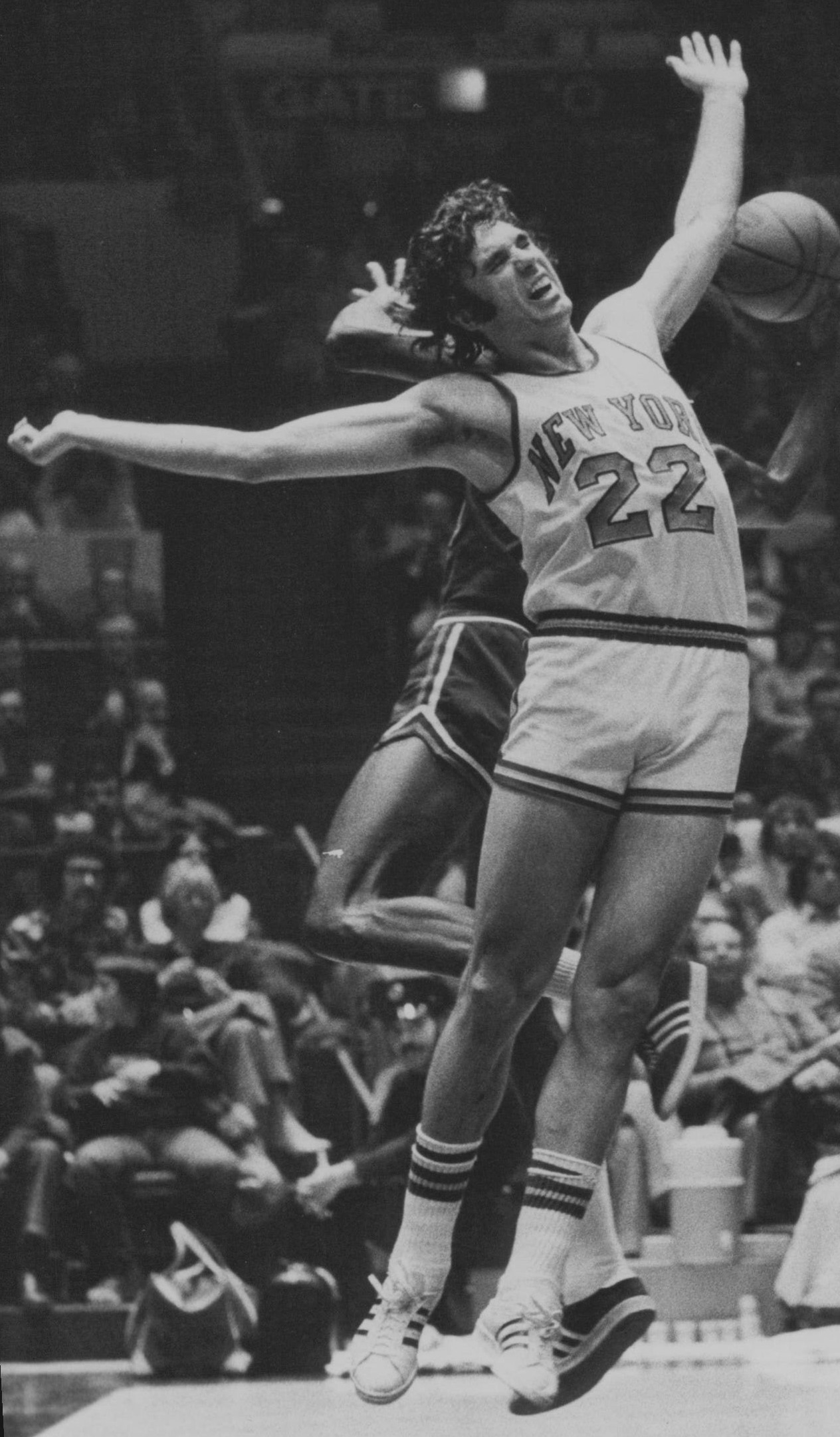 Professional basketball player Dave DeBusschere